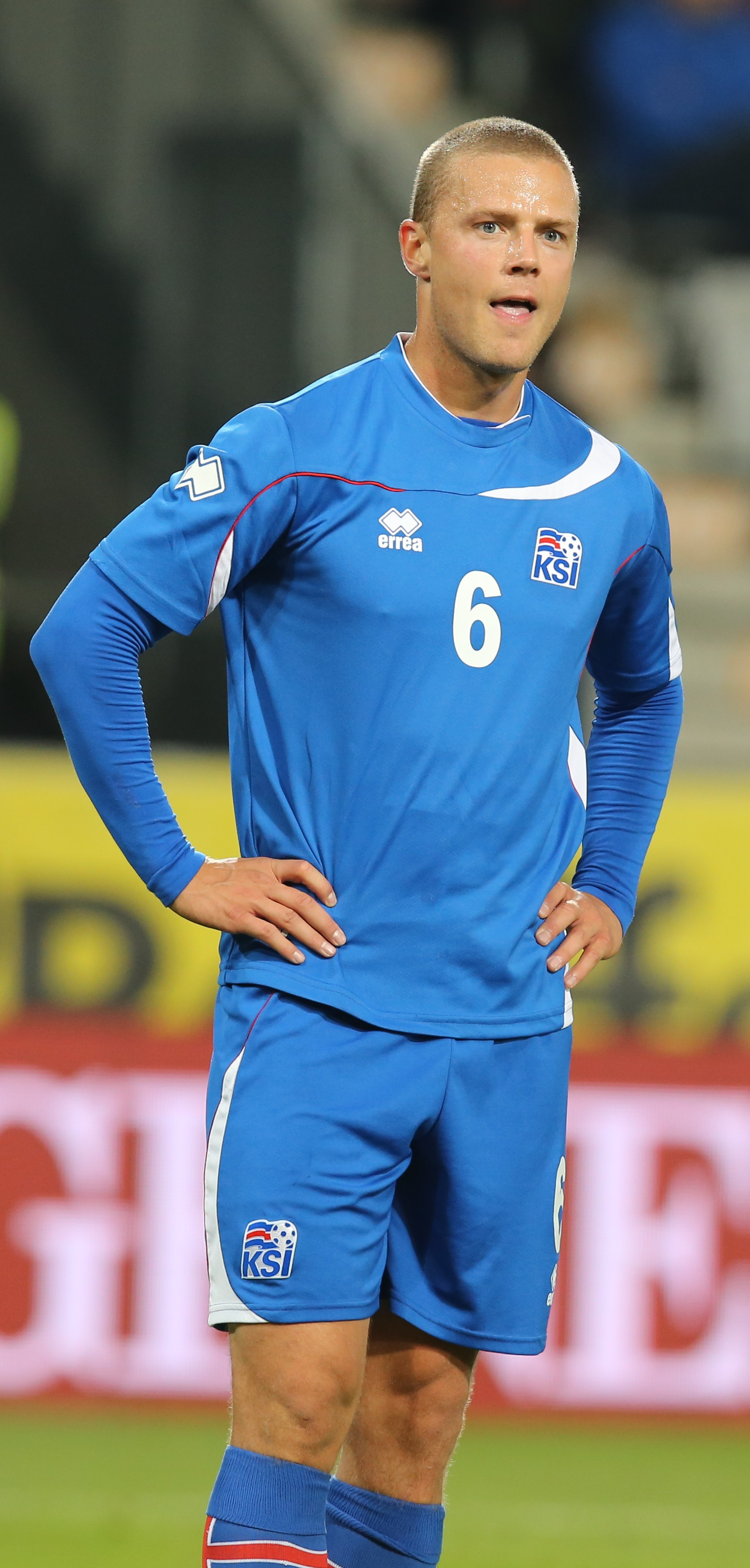 Austria - Iceland football match in Innsbruck, Austria on 2014-05-30. Austria in red, Iceland in blue.